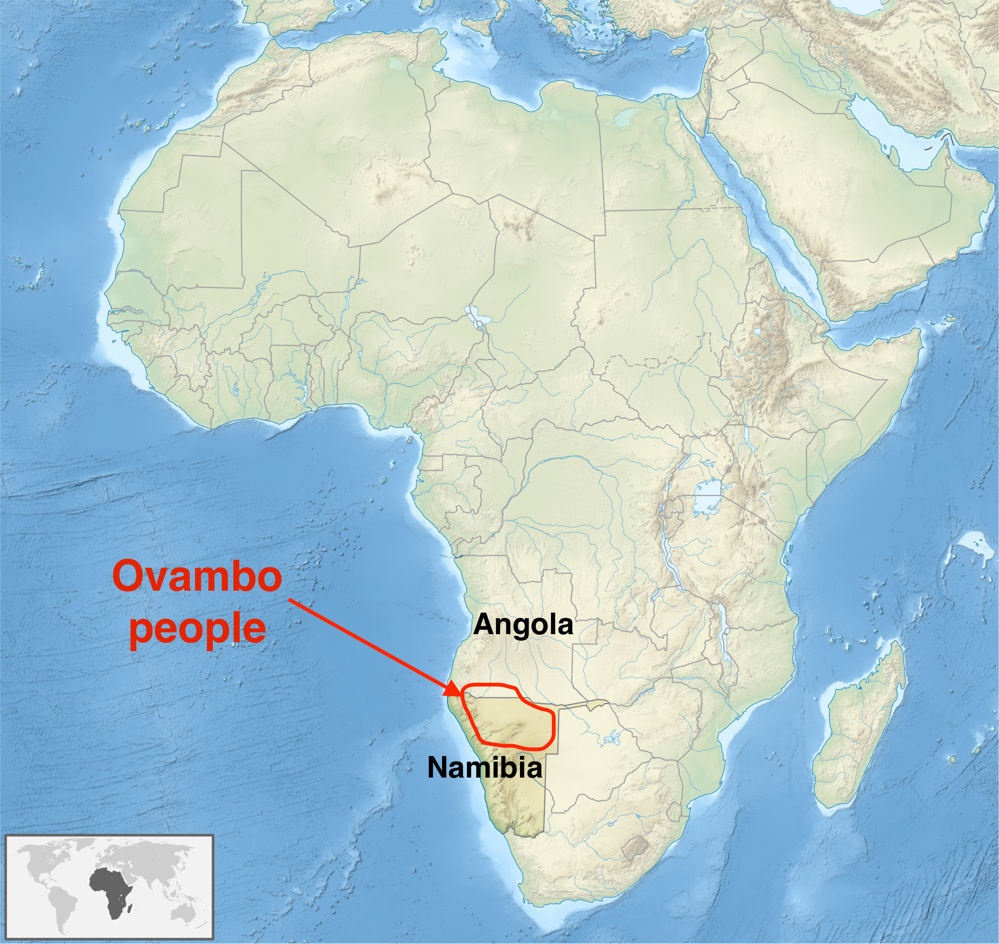 An approximate geographical distribution of Ovambo people (also known as Ambo) This is a derivative work on the following image from wikimedia: File:Namibia in Africa (relief).svg